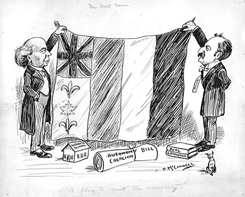 Political cartoon. Title: "The next favor. 'A flag to suit the minority.'" French tricolor is given greater prominence than the Union Jack, and the maple leaf is surrounded by two fleurs-de-lis...